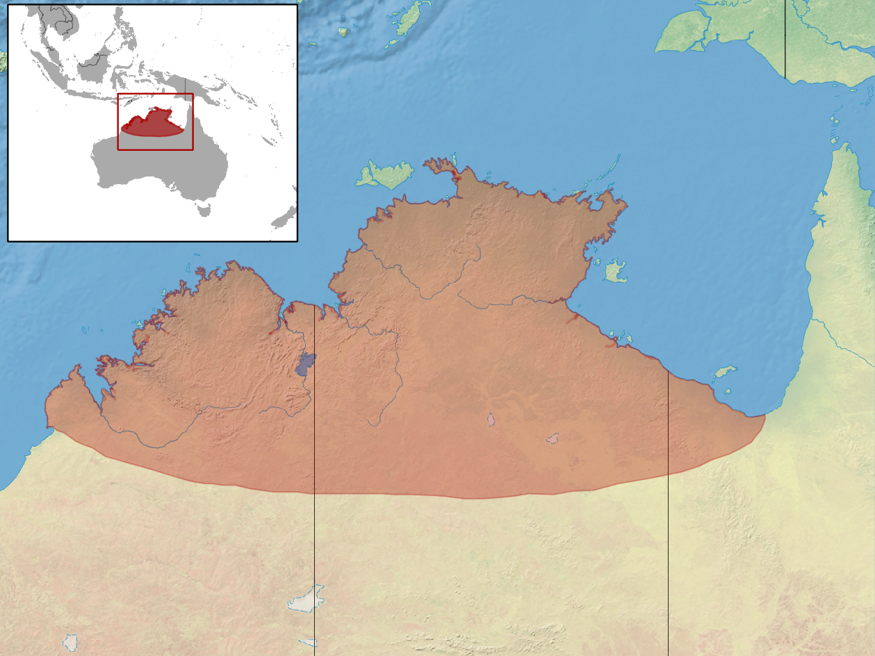 geographic distribution of Ctenotus inornatus